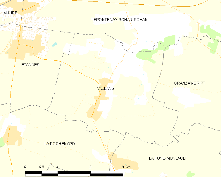 Map of French municipality Vallans